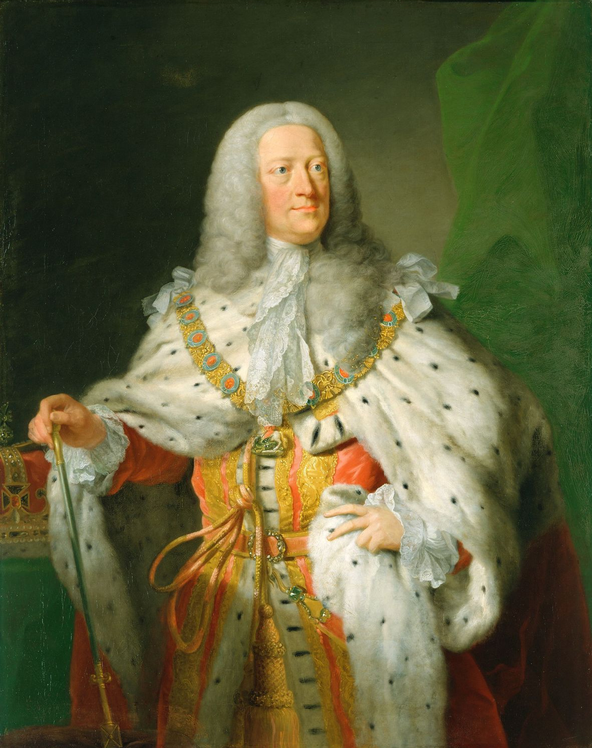 Portrait of George II of Great Britain (1683-1760)